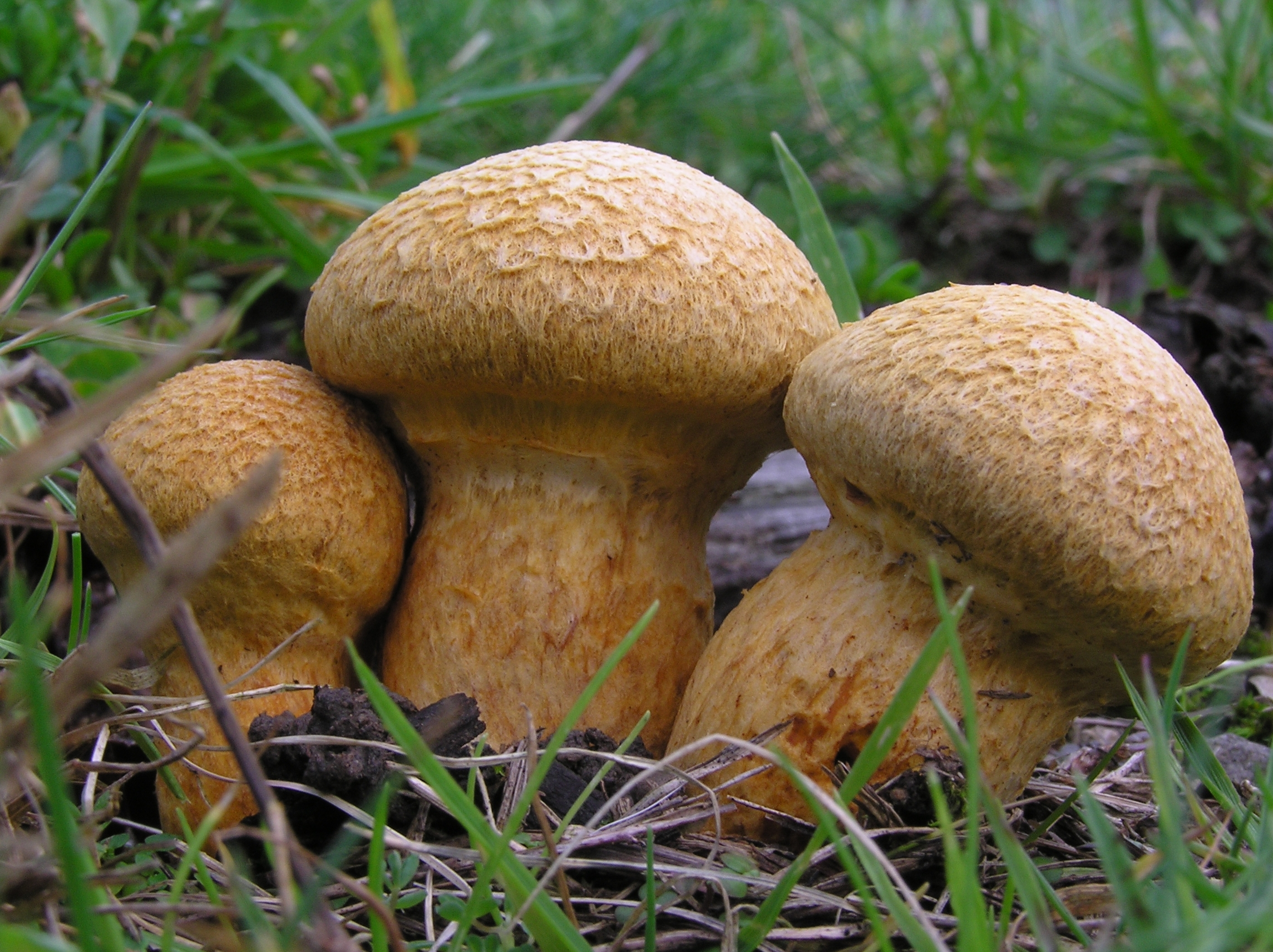 Laughing Jim mushrooms on dead pinus radiata root, Wellington, New Zealand.